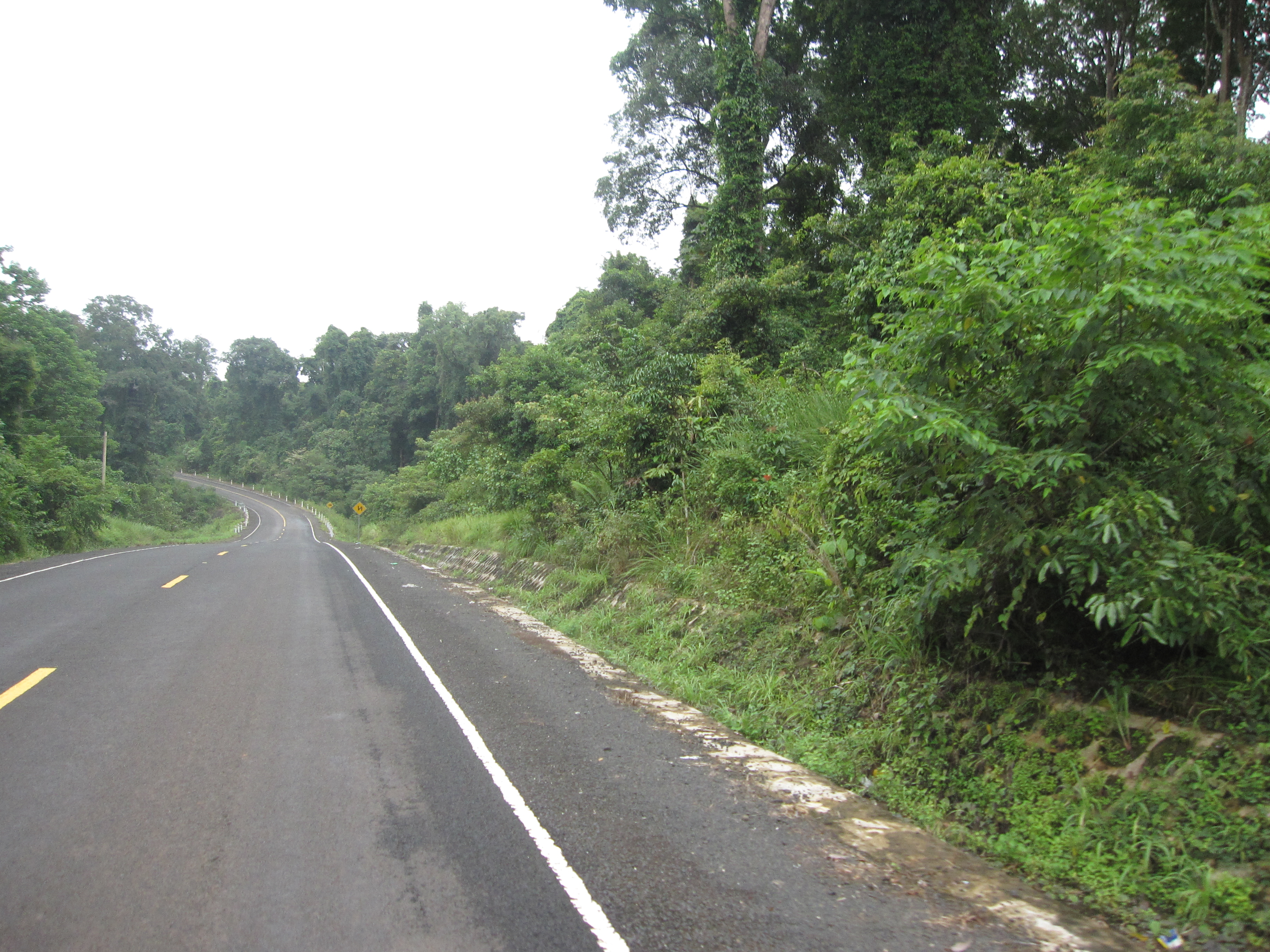 A view in Mondulkiri Province, Cambodia, on National Highway 76 heading towards Sen Monorom from Snuol.